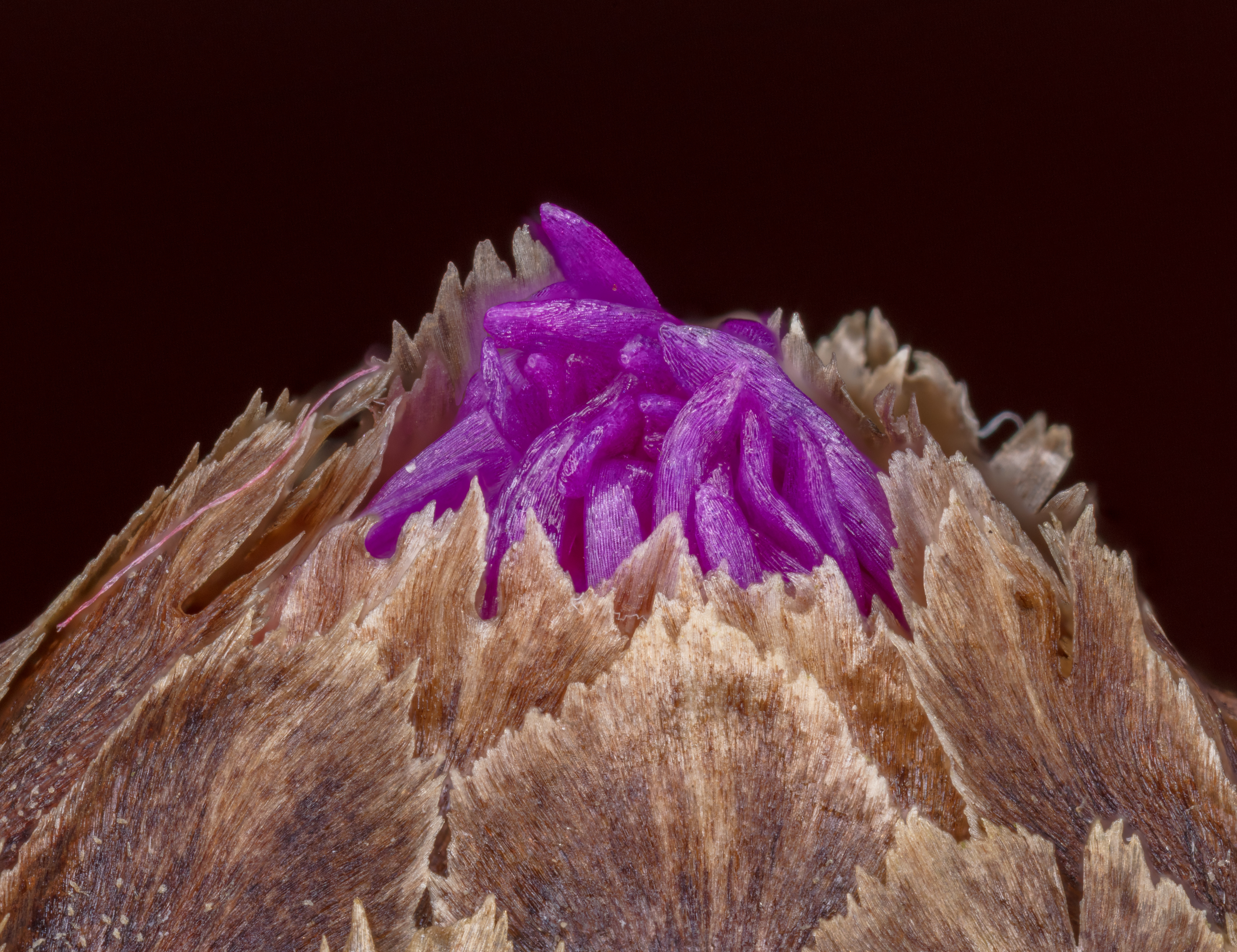 Brown knapweed (Centaurea jacea), Hartelholz, Munich, Germany